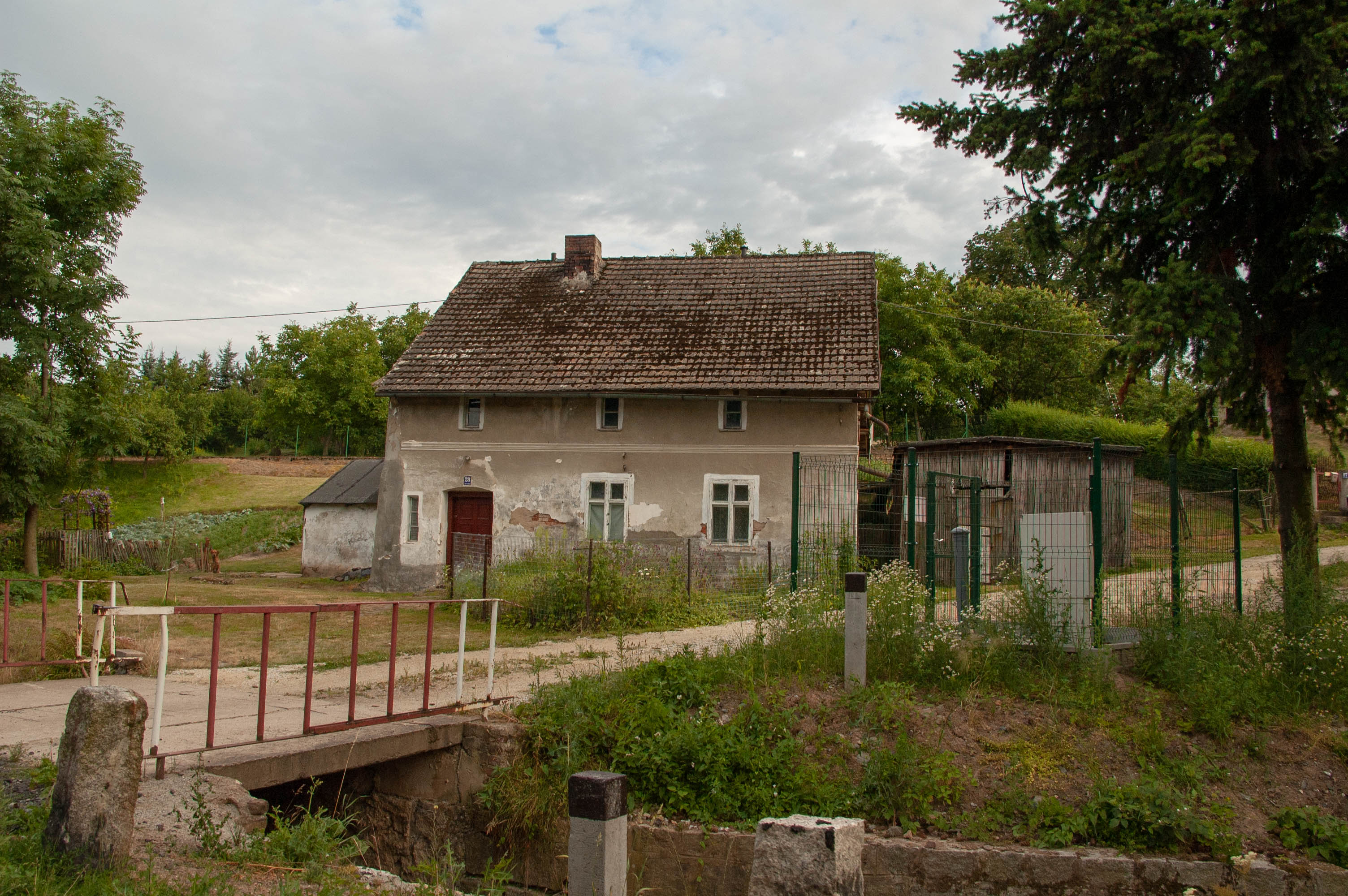 This photograph was created as a part of Wikiexpedition Lower Silesia, a project supported by Wikimedia Poland grant.